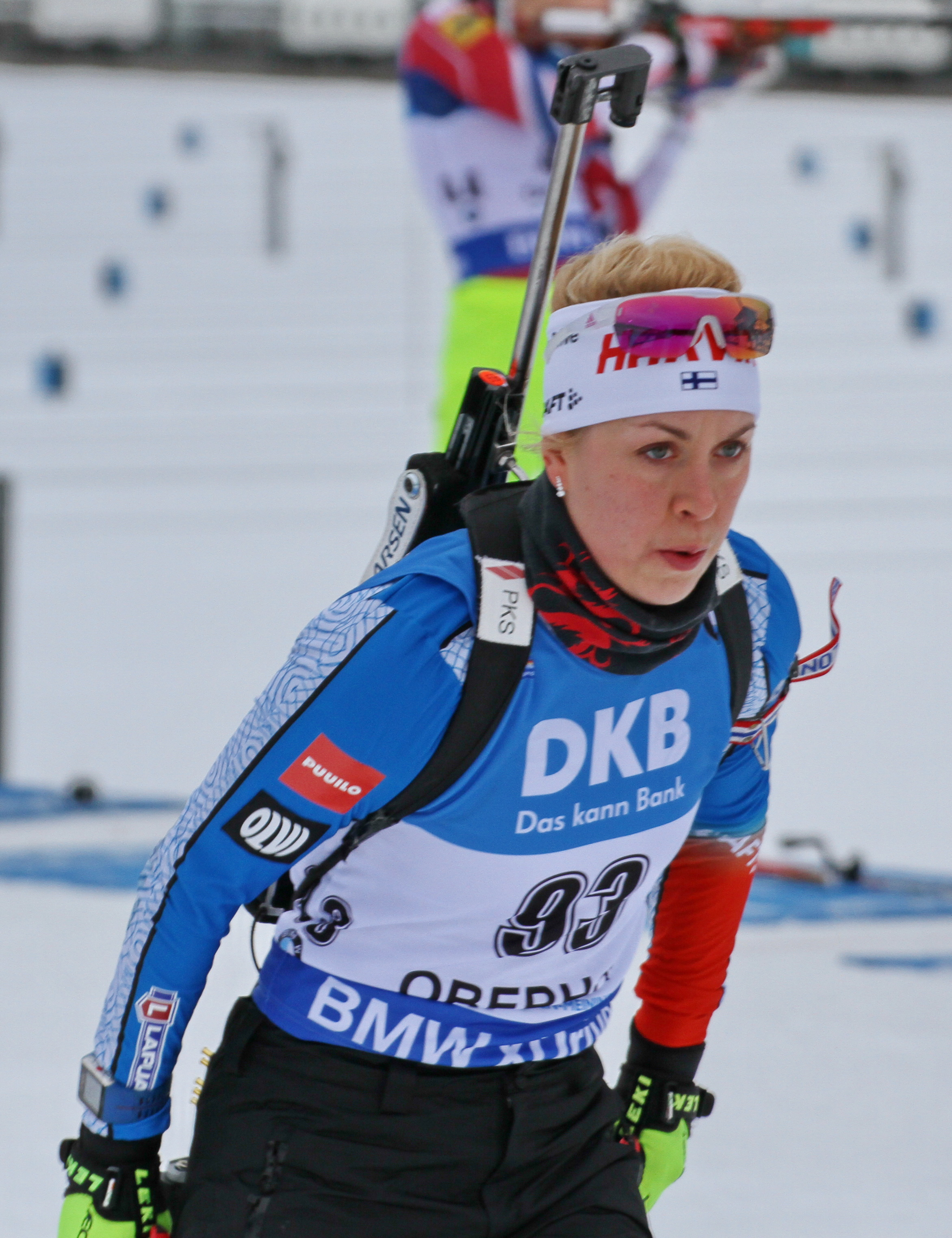 2018 Oberhof Biathlon World Cup - Sprint Women